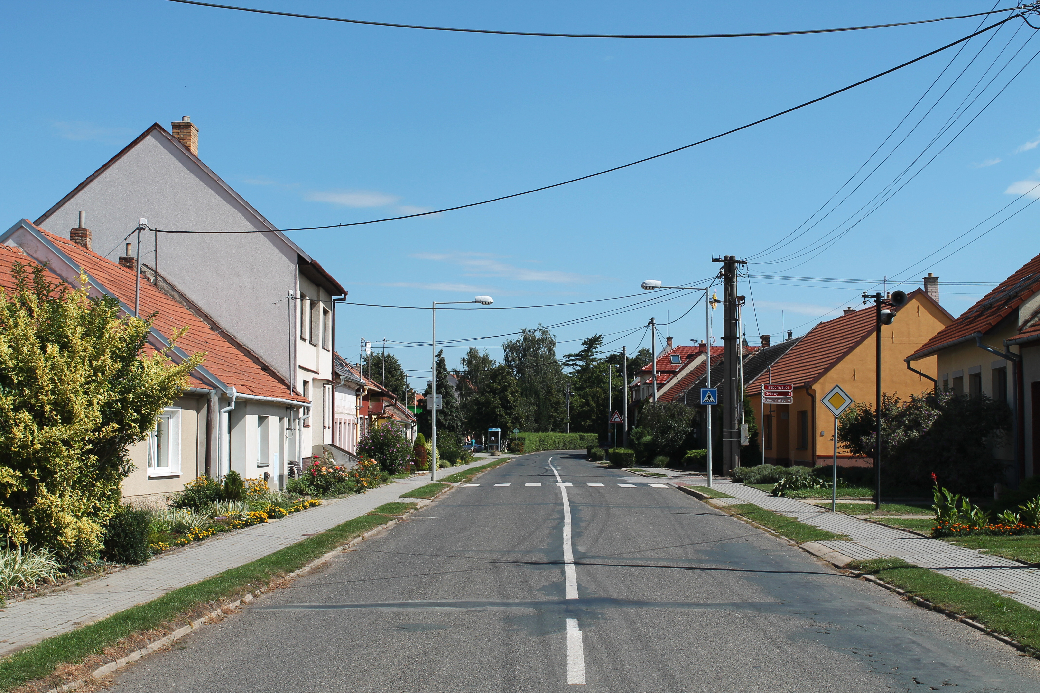 Třebomyslice, Žatčany, Brno-Country District, Czech Republic